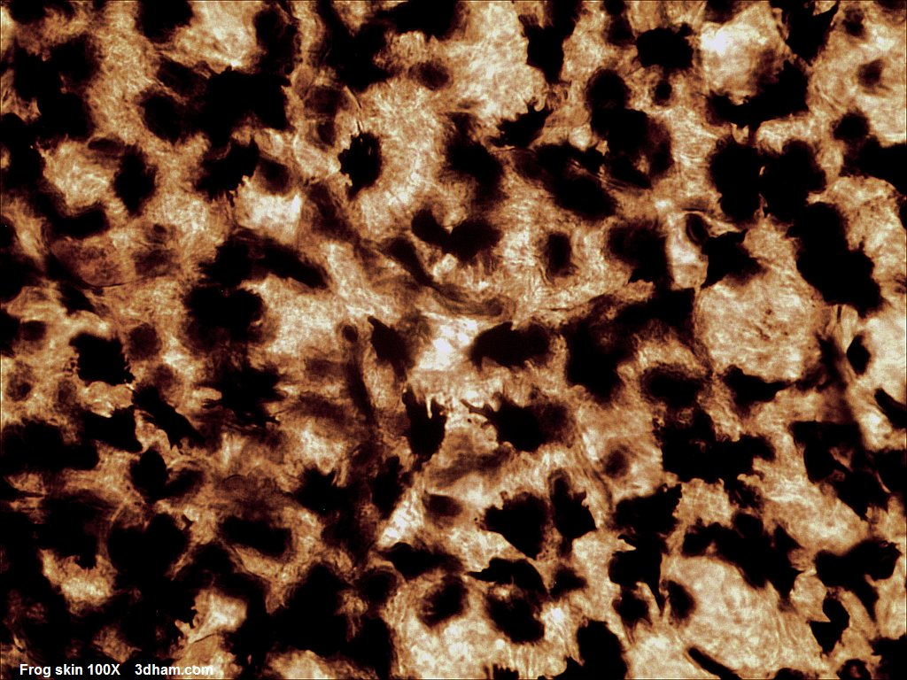 Frog Skin @ 100x